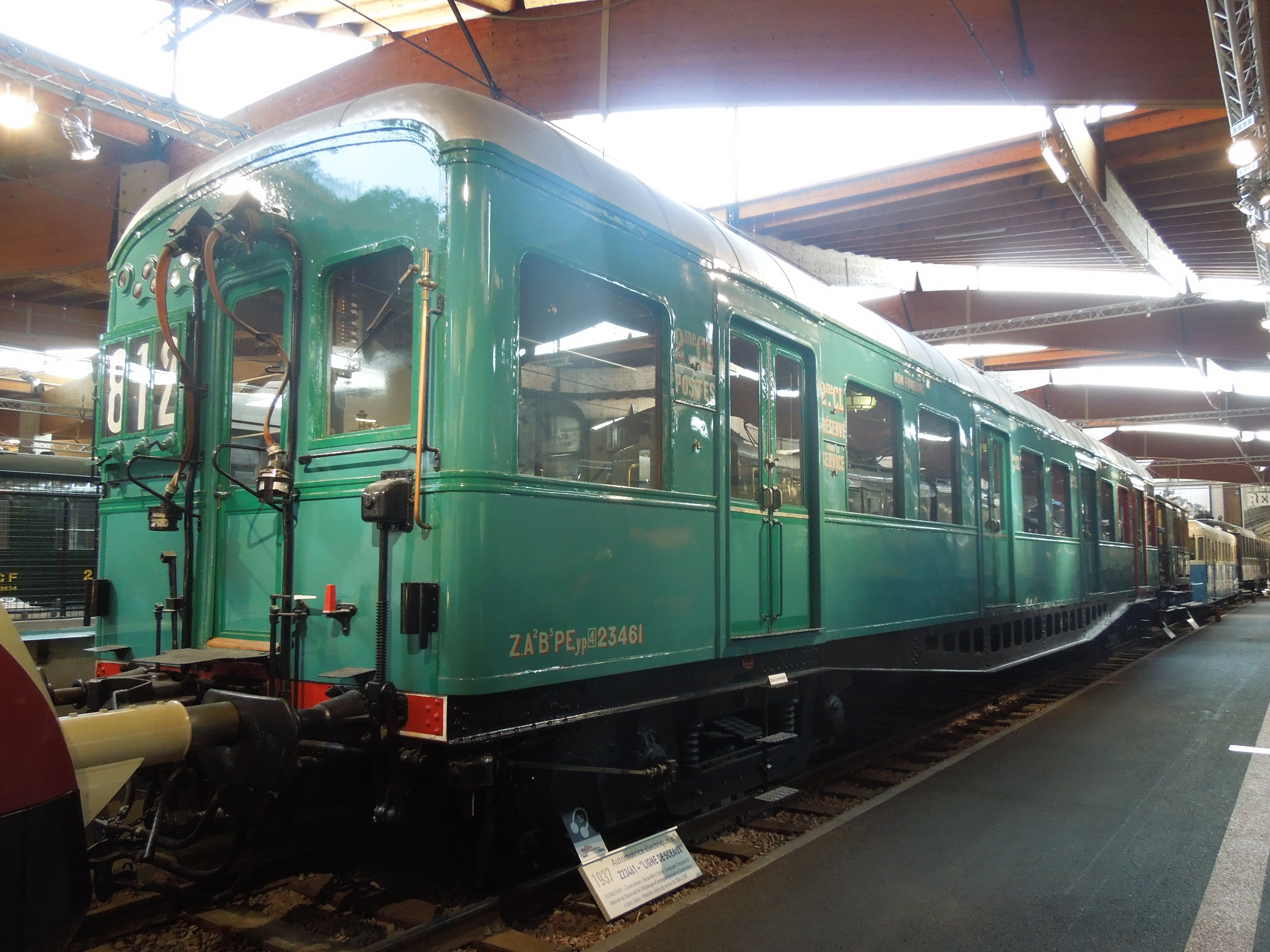 The Cité du train railway museum in Mulhouse